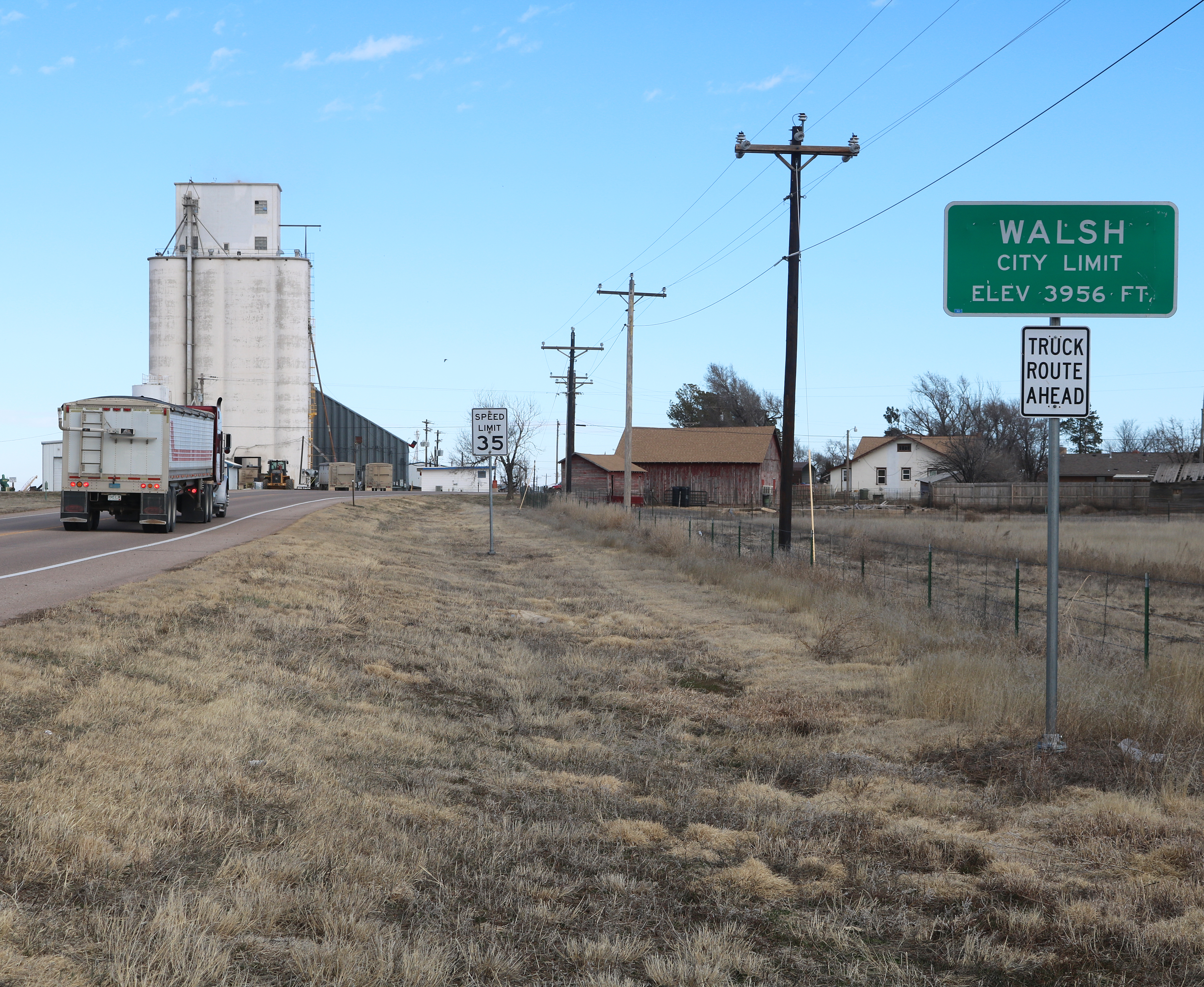 Entering Walsh, Colorado from the west on U.S. Route 160.